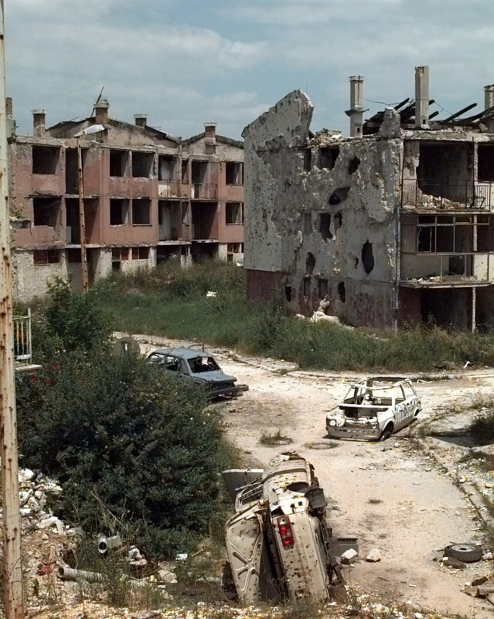 Photograph of a section of the Dobrinja suburb before the reconstruction of war damaged buildings by the local civilian population.